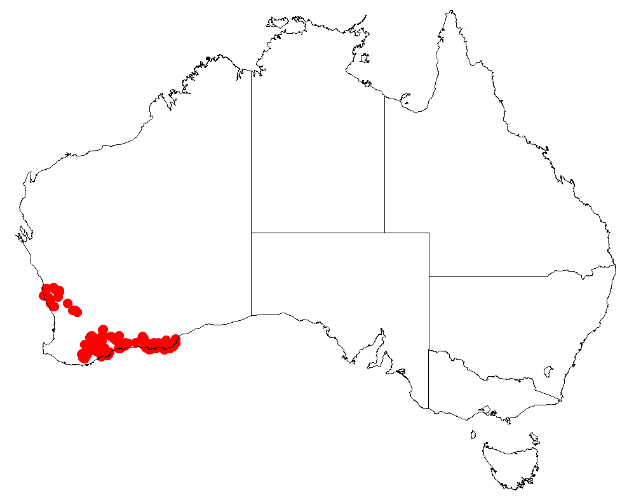 Hakea obliqua Occurrence data downloaded from AVH on 22 November 2018 using